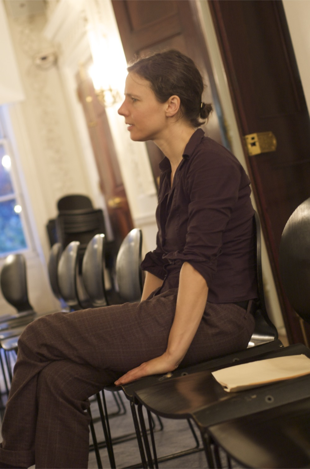 Goethe-Institut Boston, September 28, 2010 (photo: Susanna Bolle)